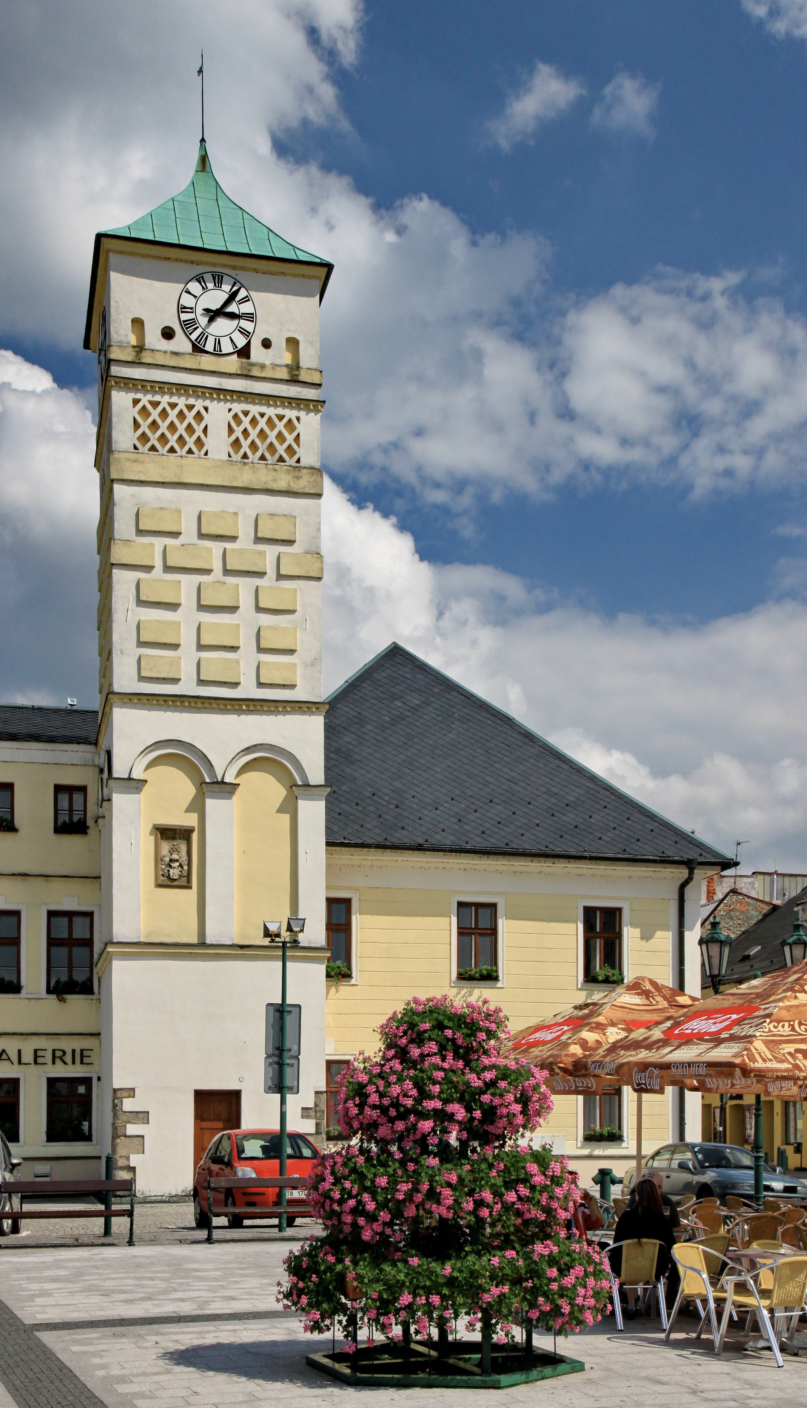 Town hall, 1 Fryštátská street, Fryštát, Karviná. Moravian-Silesian Region, Czech Republic.